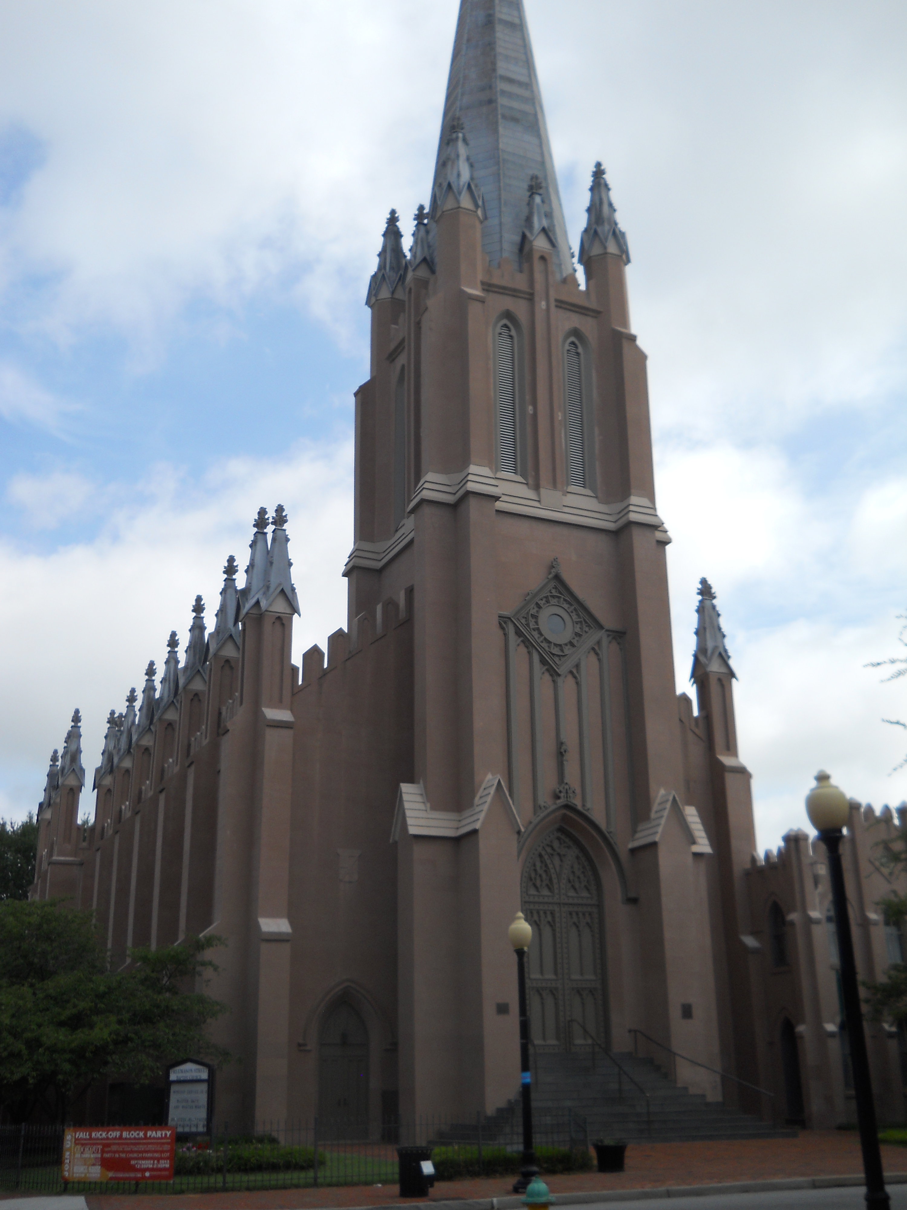 Freemason Street Baptist Church, Northeast corner of Freemason and Bank Sts.